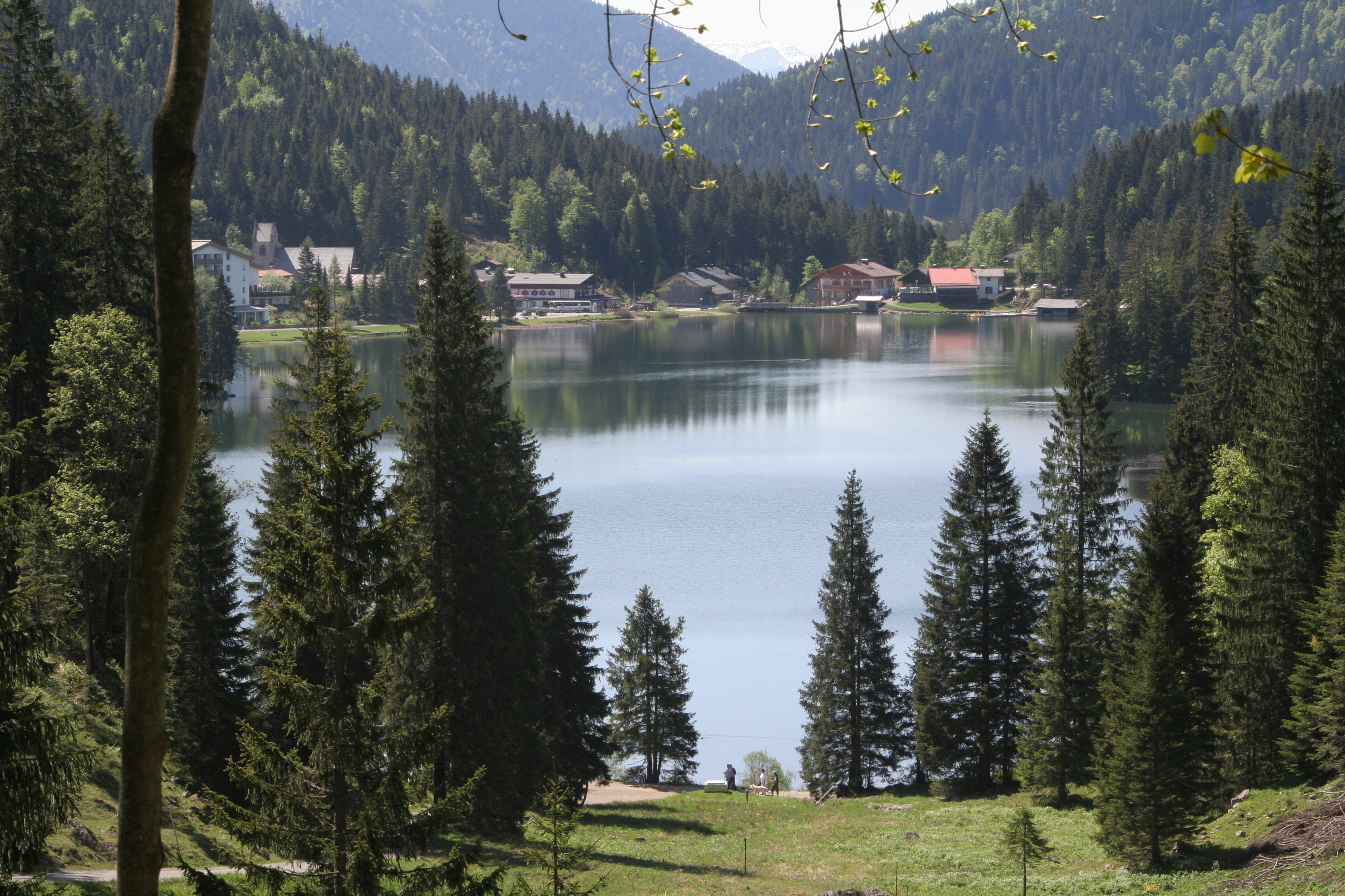 Spitzingsee from Spitzingsattel